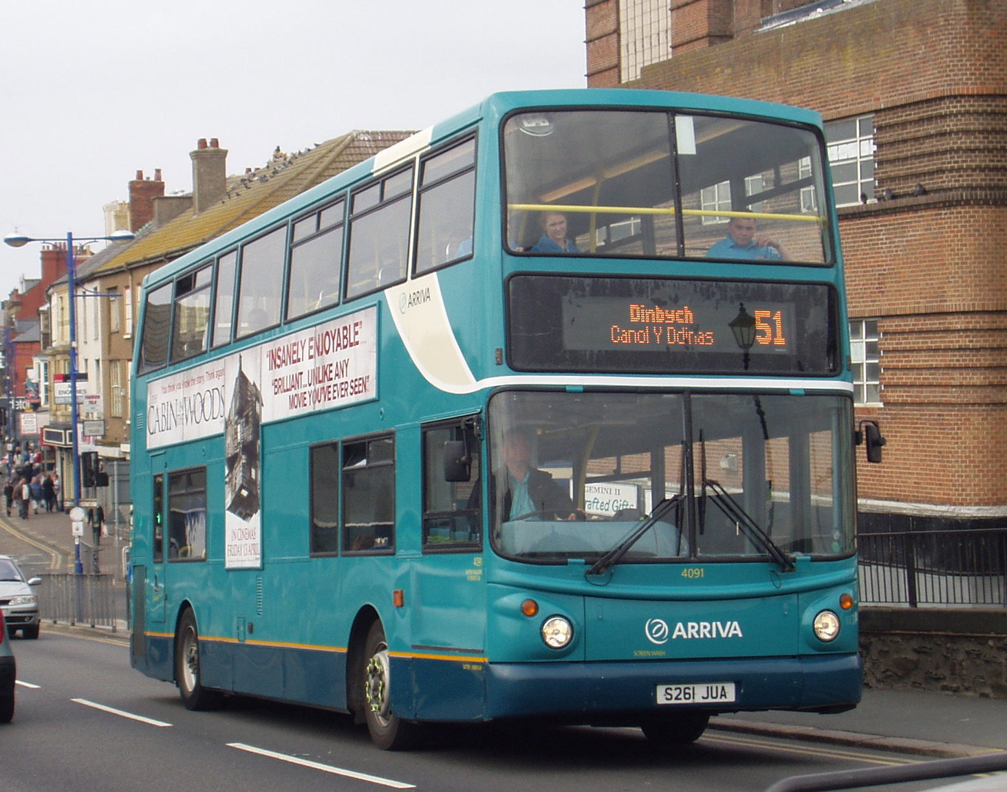 Arriva Buses Wales DAF DB250 / Alexander ALX400 double deck bus 4091 leaving Rhyl for Denbigh on service 51